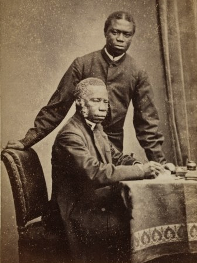 Anglican bishop Samuel Ajayi Crowther and his son Dandeson, c. 1870 (photographer: Sydney Victor White).